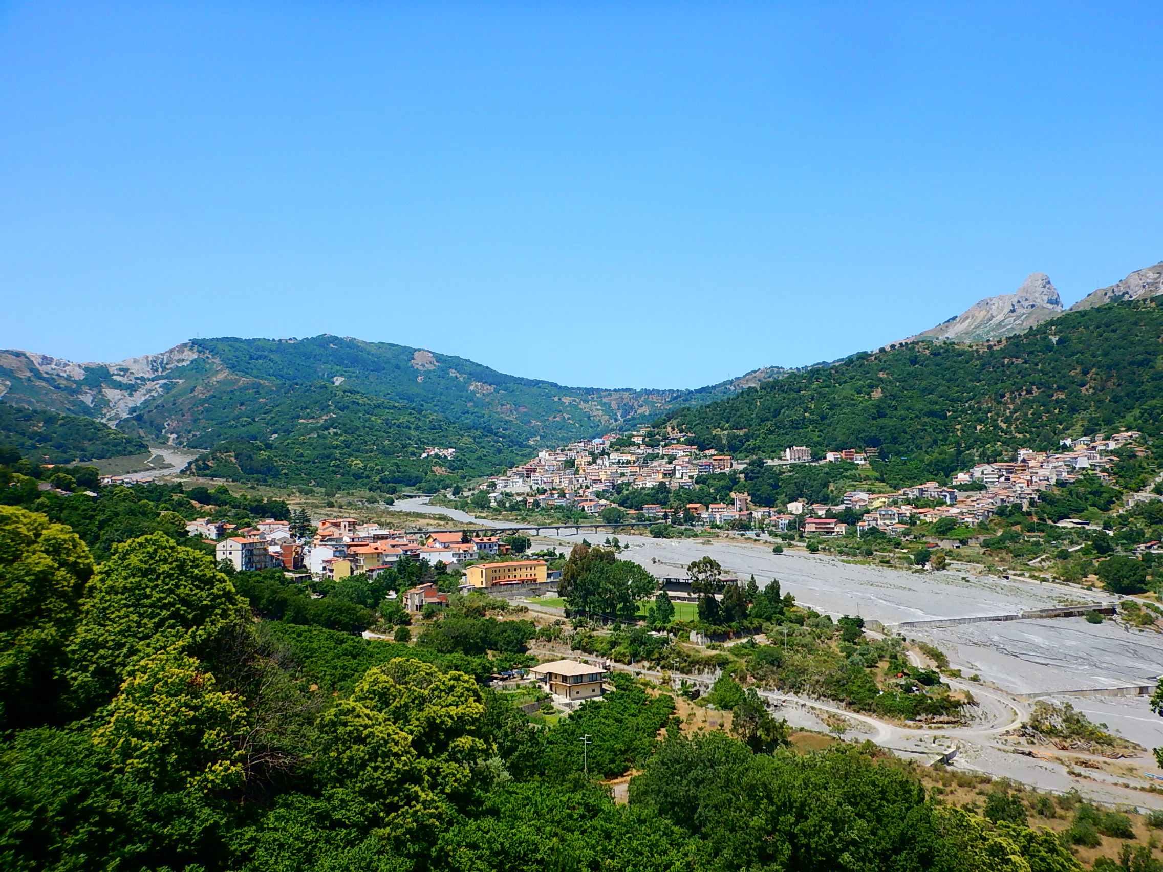 landscape of fondachelli fantina, sicily